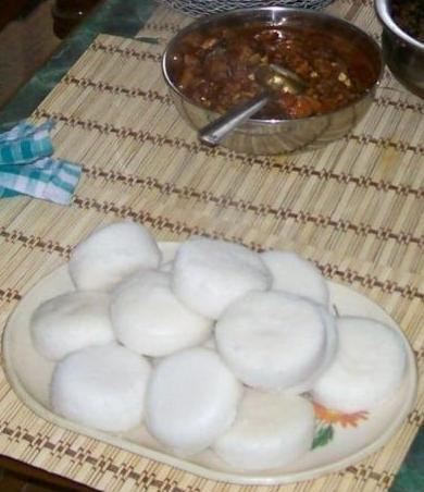 This is an image of Sanna-Dukra Maas (Sanna – idli fluffed with toddy or yeast; Dukra Maas – Pork), a very popular dish of Mangalorean Catholics.